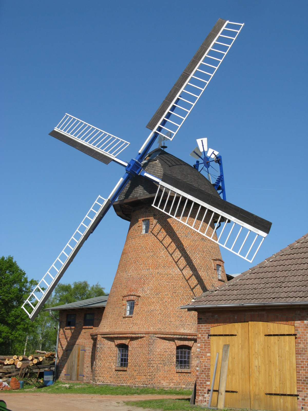 Windmill in Kummer (Ludwigslust), Mecklenburg-Vorpommern, Germany